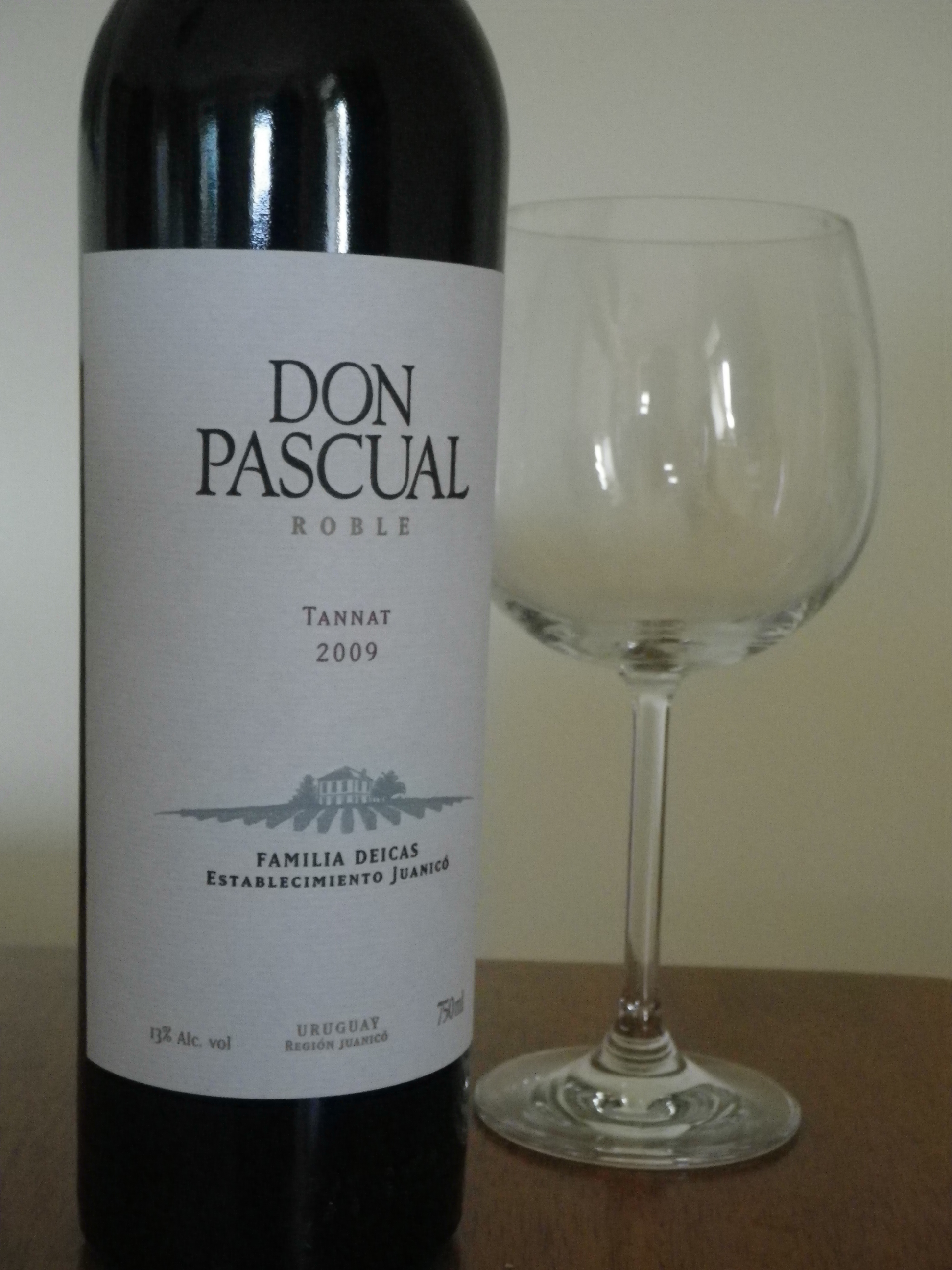 Bottle of Don Pascual wine made by Deicas family in Juanicó (Uruguay) entirely from Tannat grapes 2009